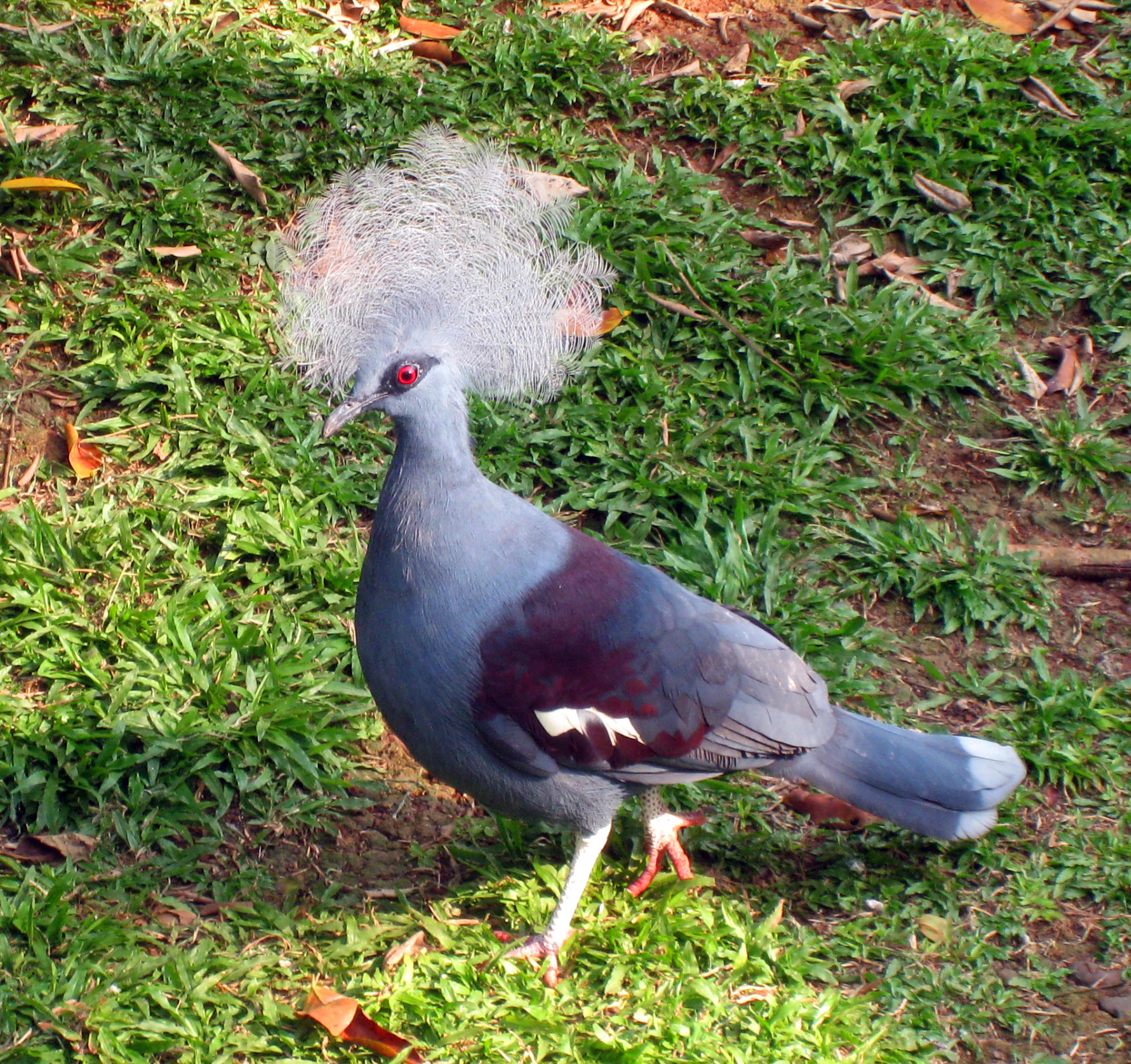 Western Crowned Pigeon (Goura cristata) from Western New Guinea island in Eastern Indonesia Dome of Taman Mini Indonesia Indah Birdpark, Jakarta, Indonesia.